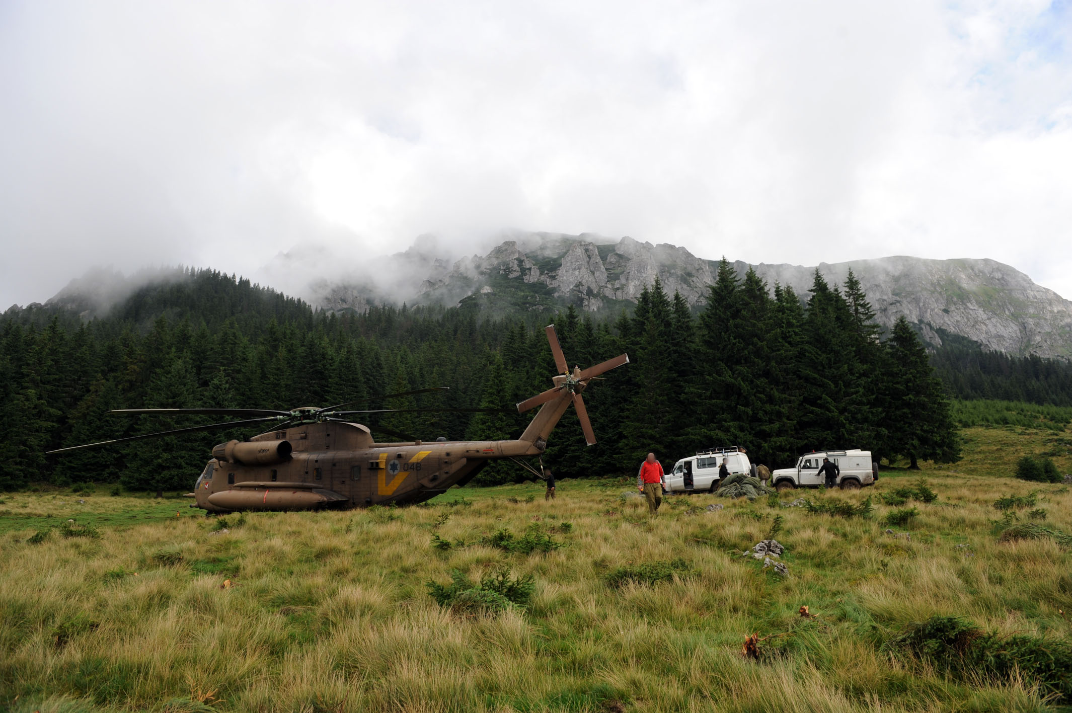 July 28, 2010. The IDF delegation continued today (Wednesday) to search for the bodies of the victims from the helicopter crash in Romania. For more information: dover.idf.il/IDF/English/News/today/10/07/2806.htm The Israel Defense Forces Facebook • blog • Twitter